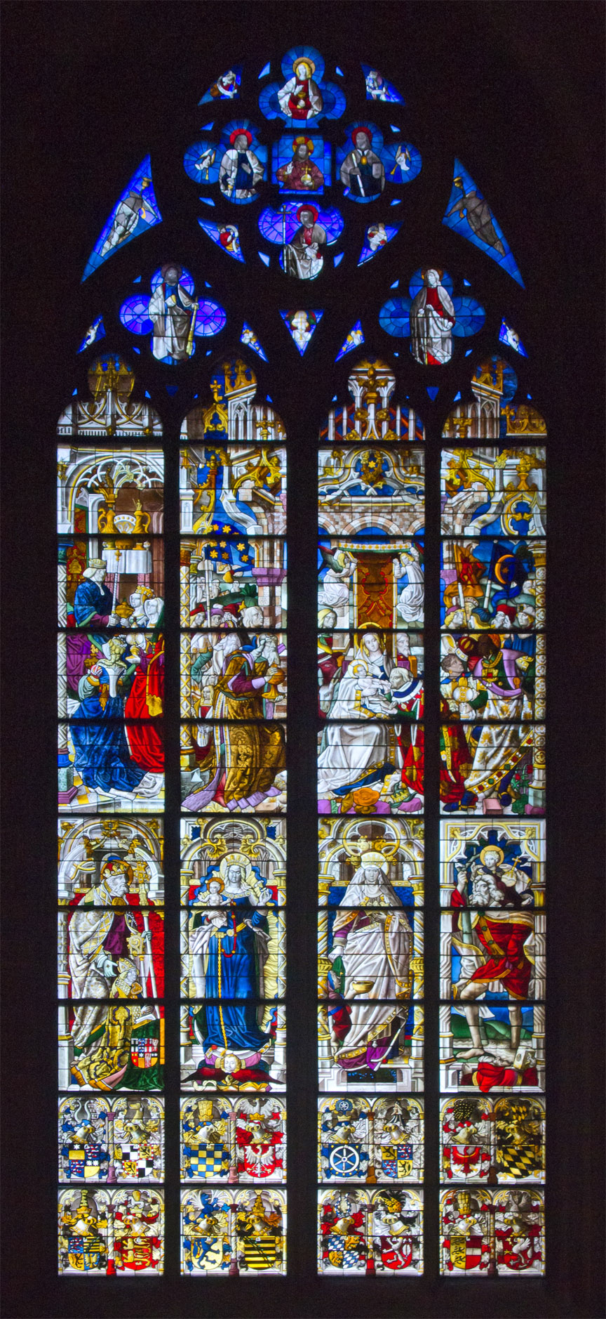 Stained glass window in northern aisle "Dreikönigsfenster" in Cologne Cathedral (Germany), created 1508